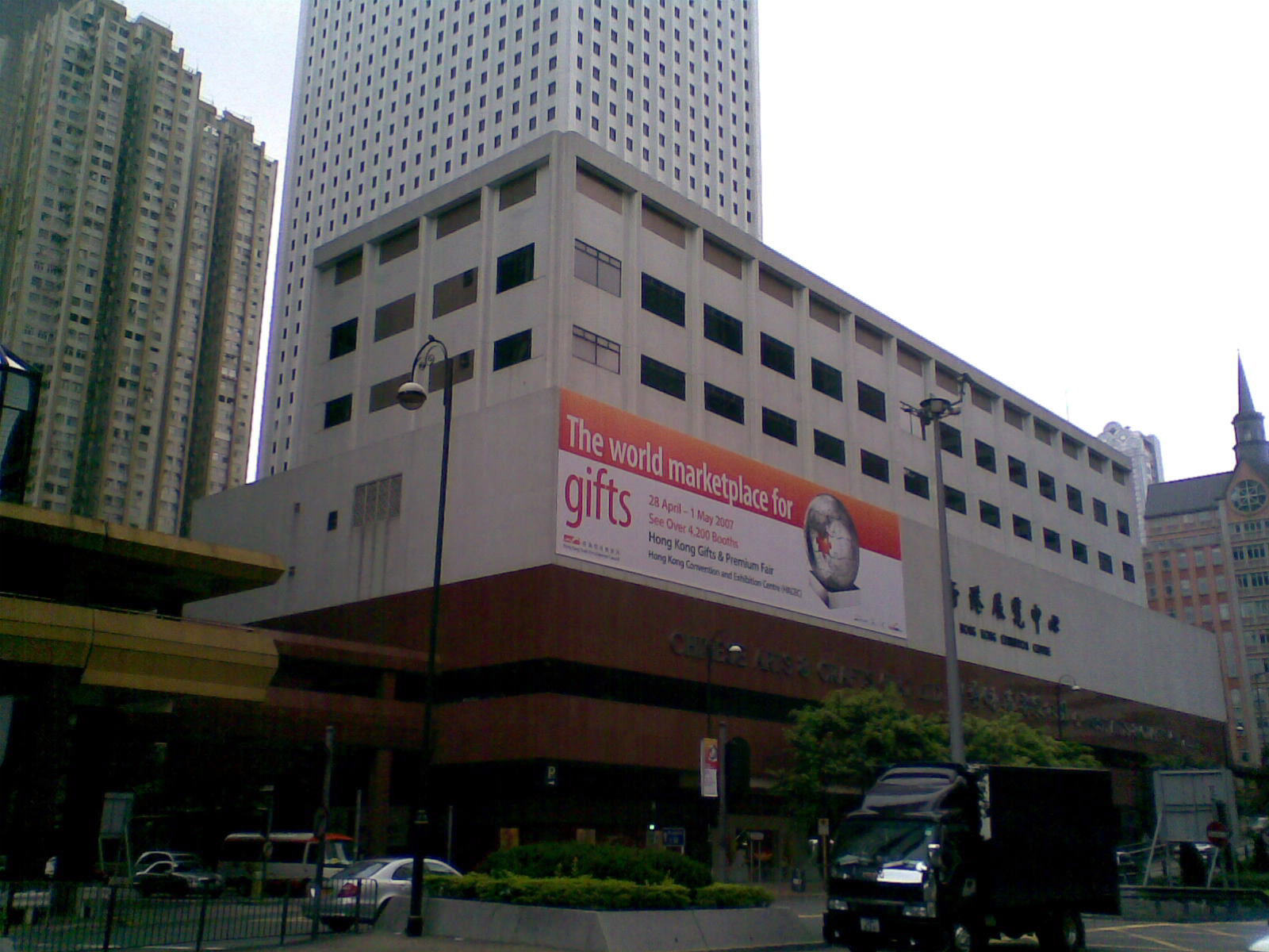 Buildings depicted include the Hong Kong Exhibition Centre (in the center of the image), and the Wanchai Meetinghouse of The Church of Jesus Christ of Latter-day Saints (far right in image), Hong Kong.